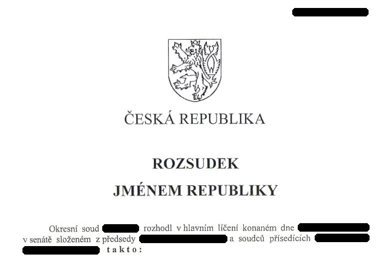 Begining of a judgment in a criminal case in Czech Republic